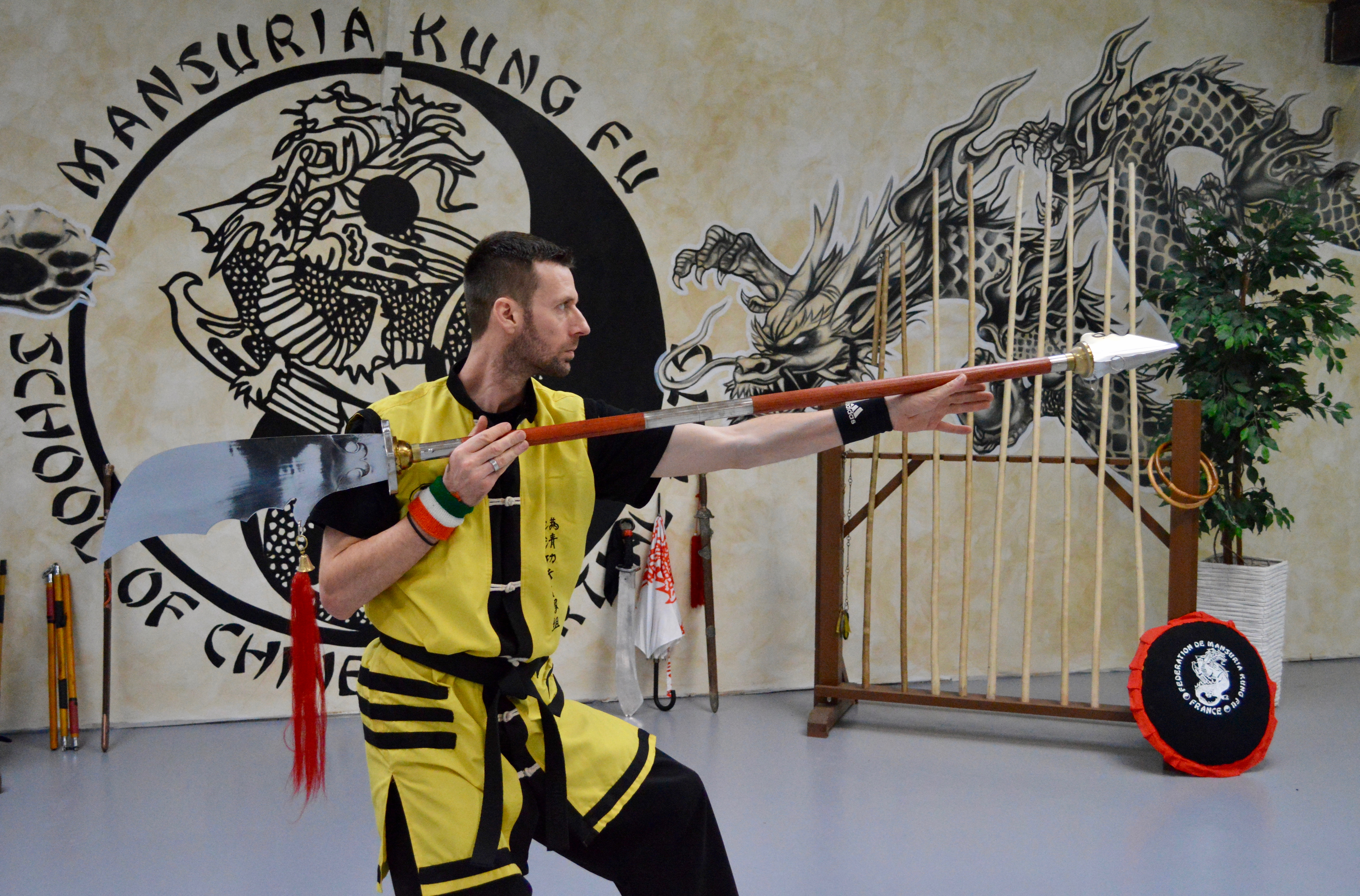 Mathieu Derosière, master of Mansuria Kung Fu, practices Halberd at Mansuria Kung Fu School of Chinese Martial Arts in Beuvry (France).